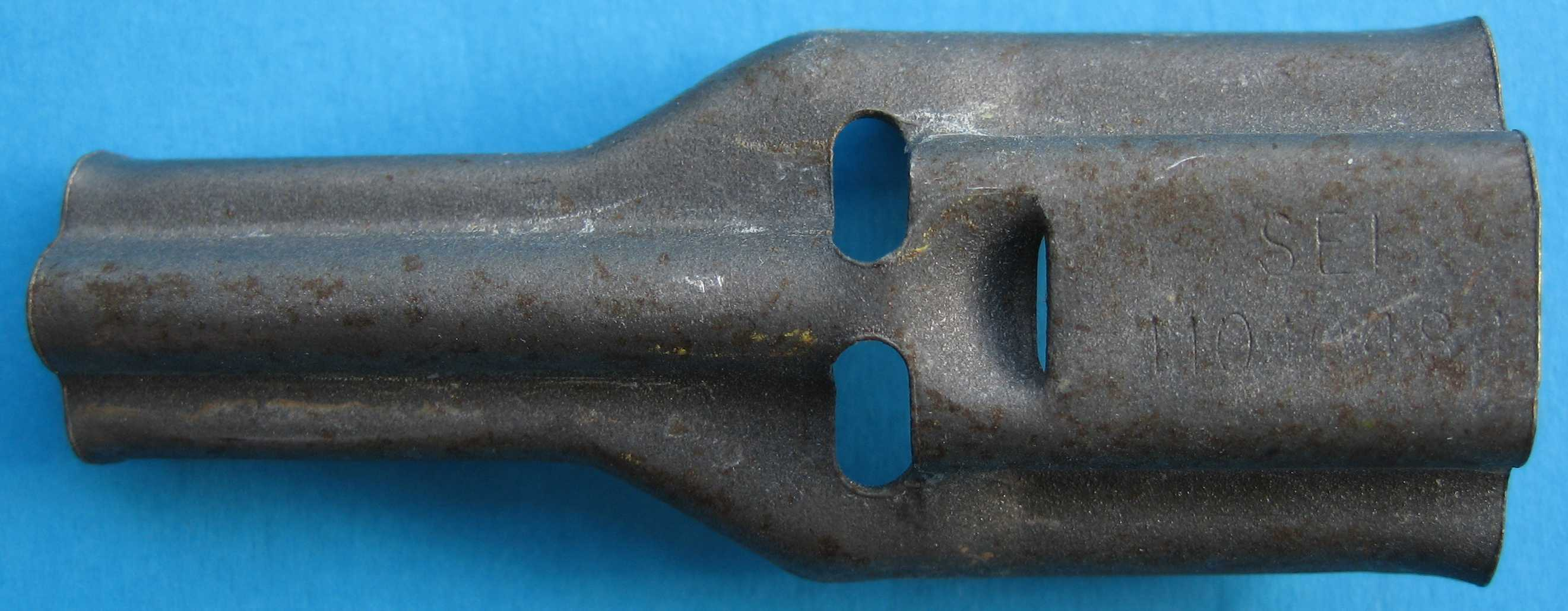 U.S. Military official issue speedloader for quick loading of M16 rifle magazines.